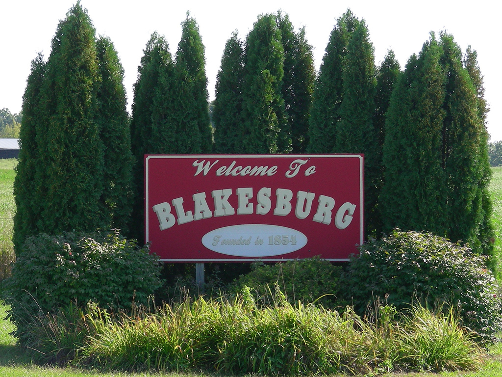 A view of the Welcome to Blakesburg sign located just north of Blakesburg on Highway 47.